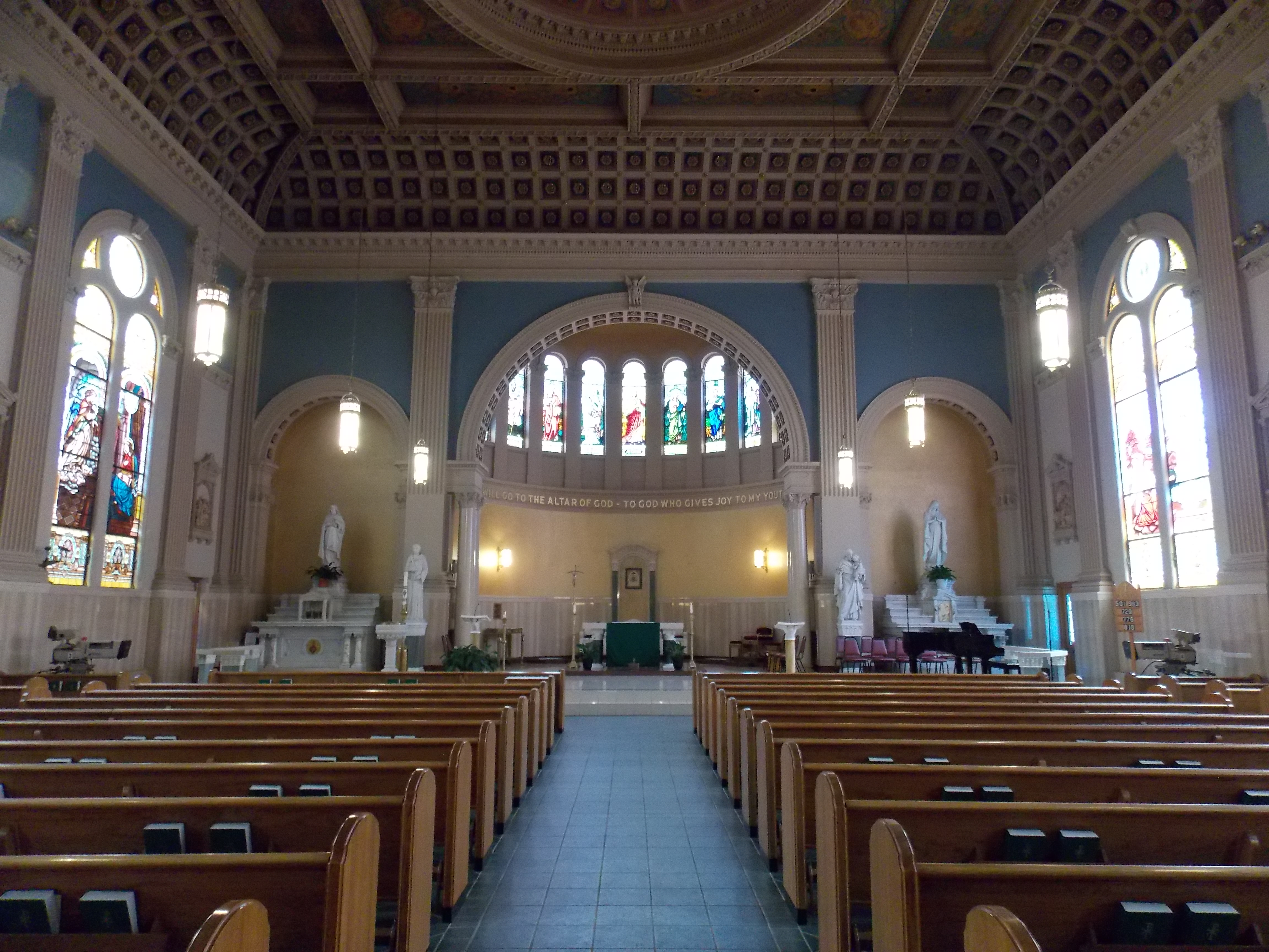 The interior of St. John Gualbert Cathedral, Johnstown, Pennsylvania.